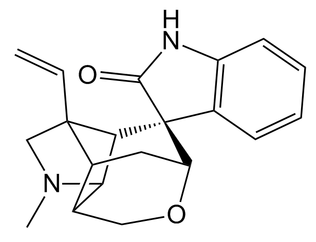 Structure of gelsemine